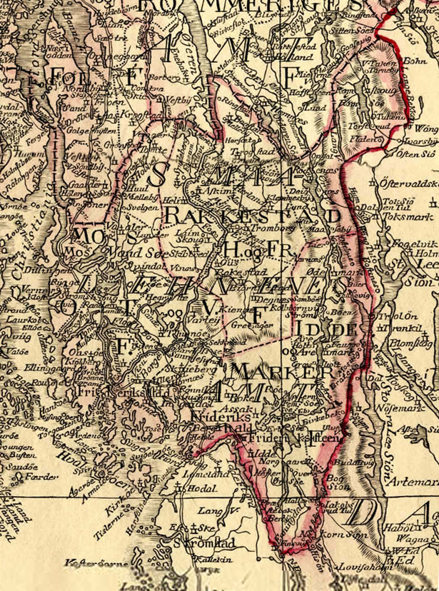 Map over Southern Norway in 1785 drawn by Christian Jochum Pontoppidan.